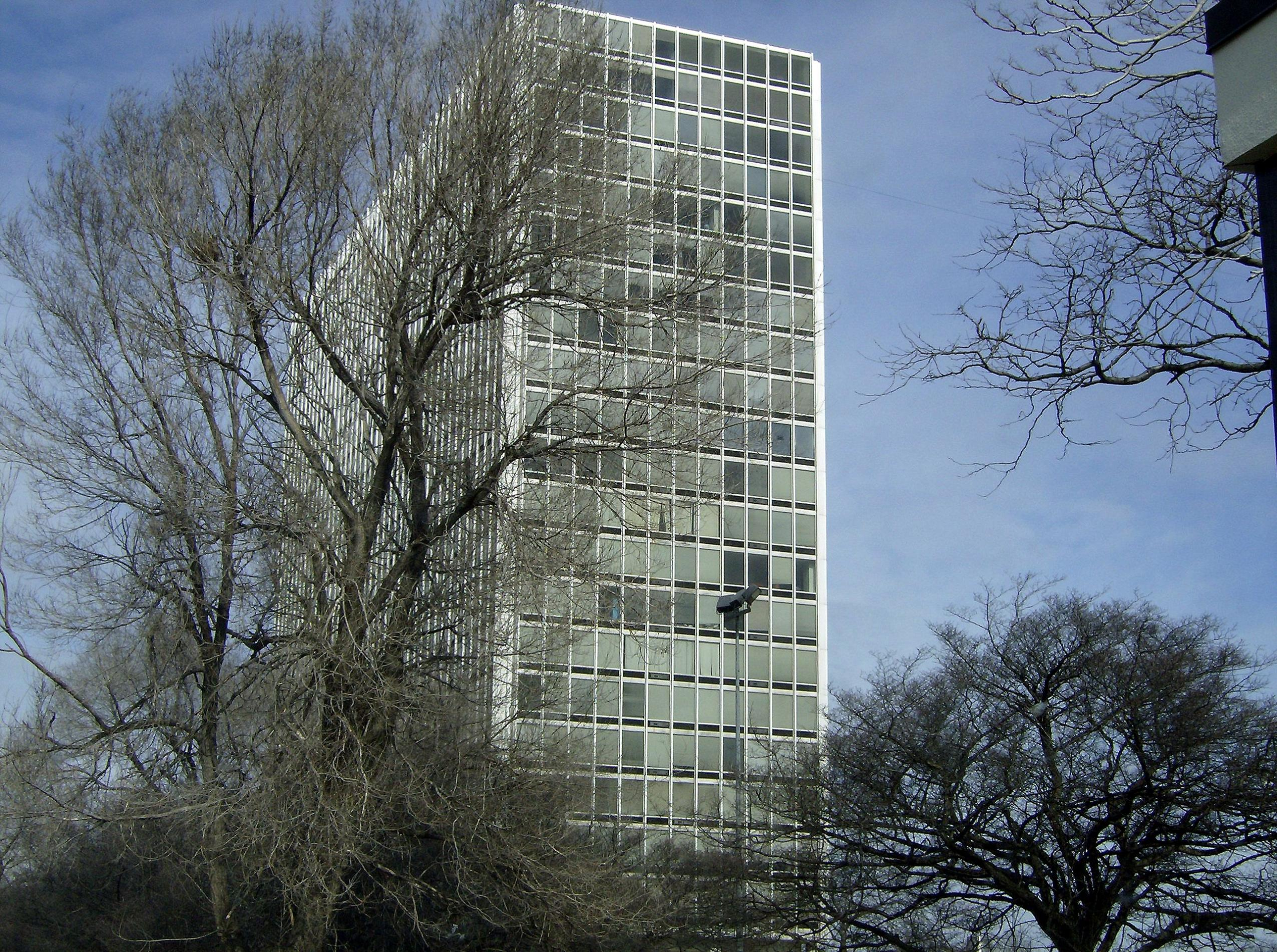 The Modernist Lafayette Towers Apartments West — in Lafayette Park, Detroit, Michigan. Building design by Ludwig Mies van der Rohe. The "Mies van der Rohe Residential District, Lafayette Park" is on the National Register of Historic Places in Detroit.